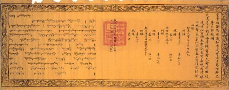 Edic issued to Kar-ma-pa by Emperor Chenghua, 116cm long, 50cm high, preserved in the Archives of the Tibet Autonomous Region